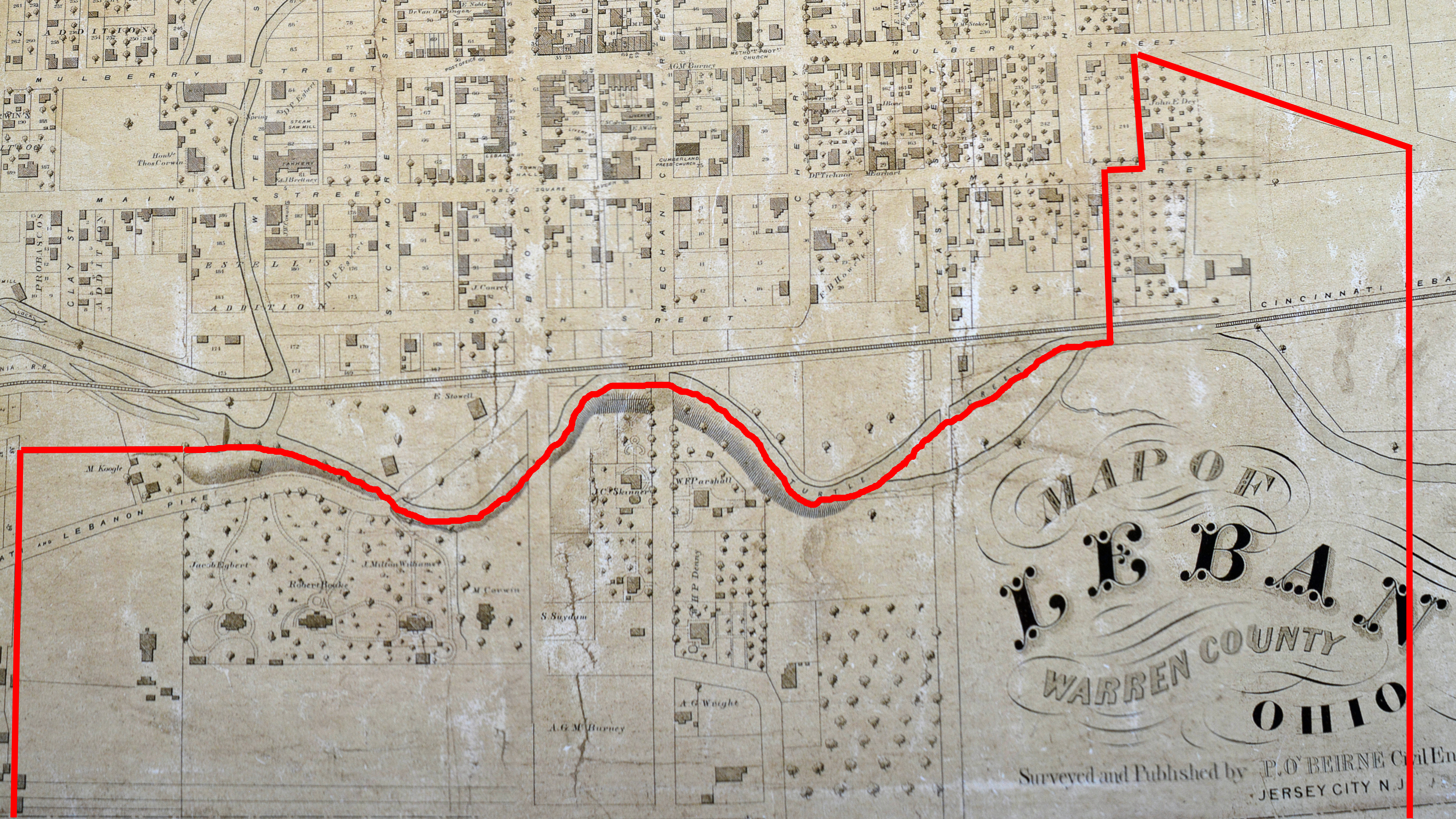 Approximate boundaries of Floraville as proposed at the Ohio General Assembly in 1851 overlaid on map from 1854